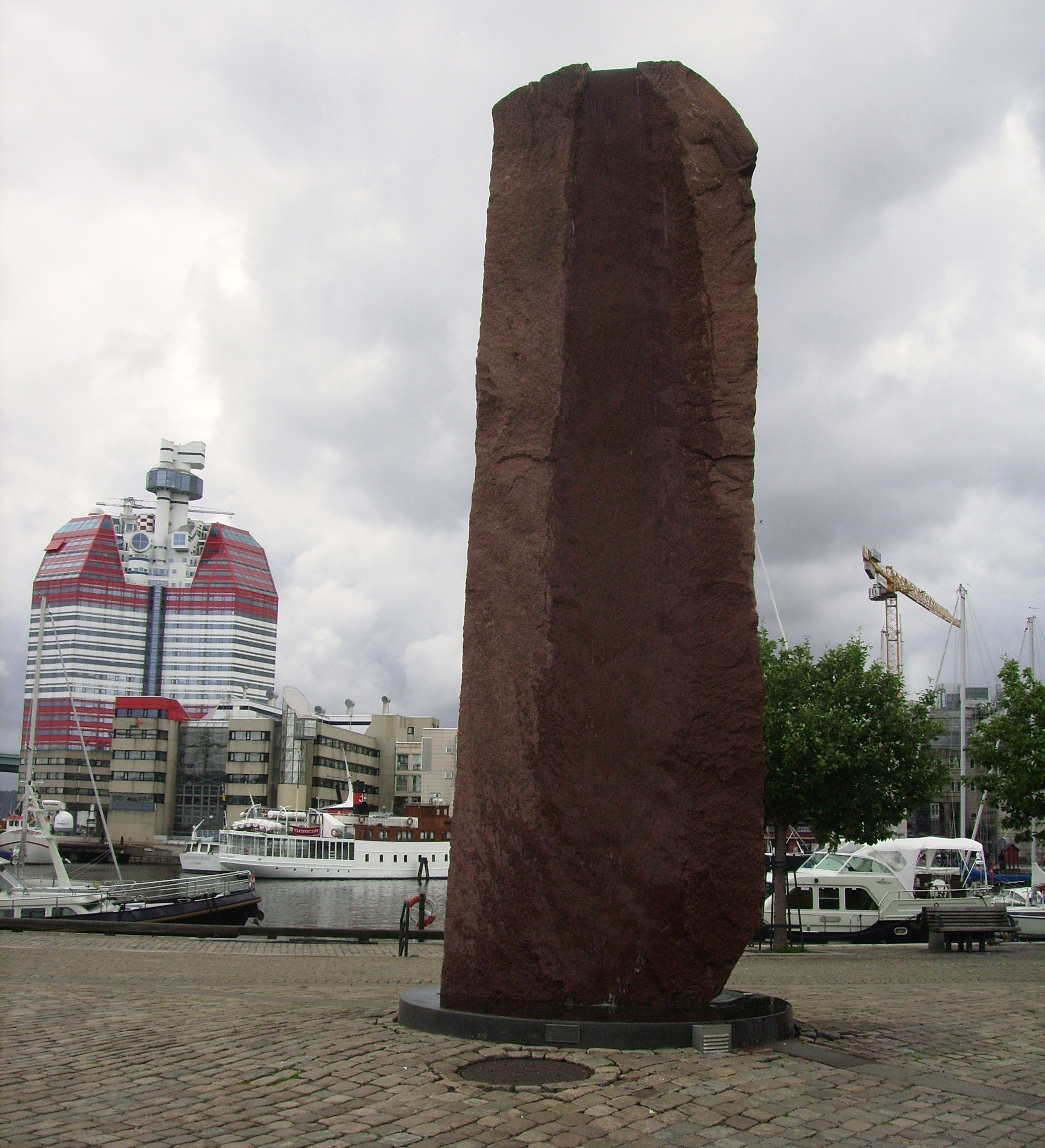 Picture of a sculpture in Gothenburg, Källan